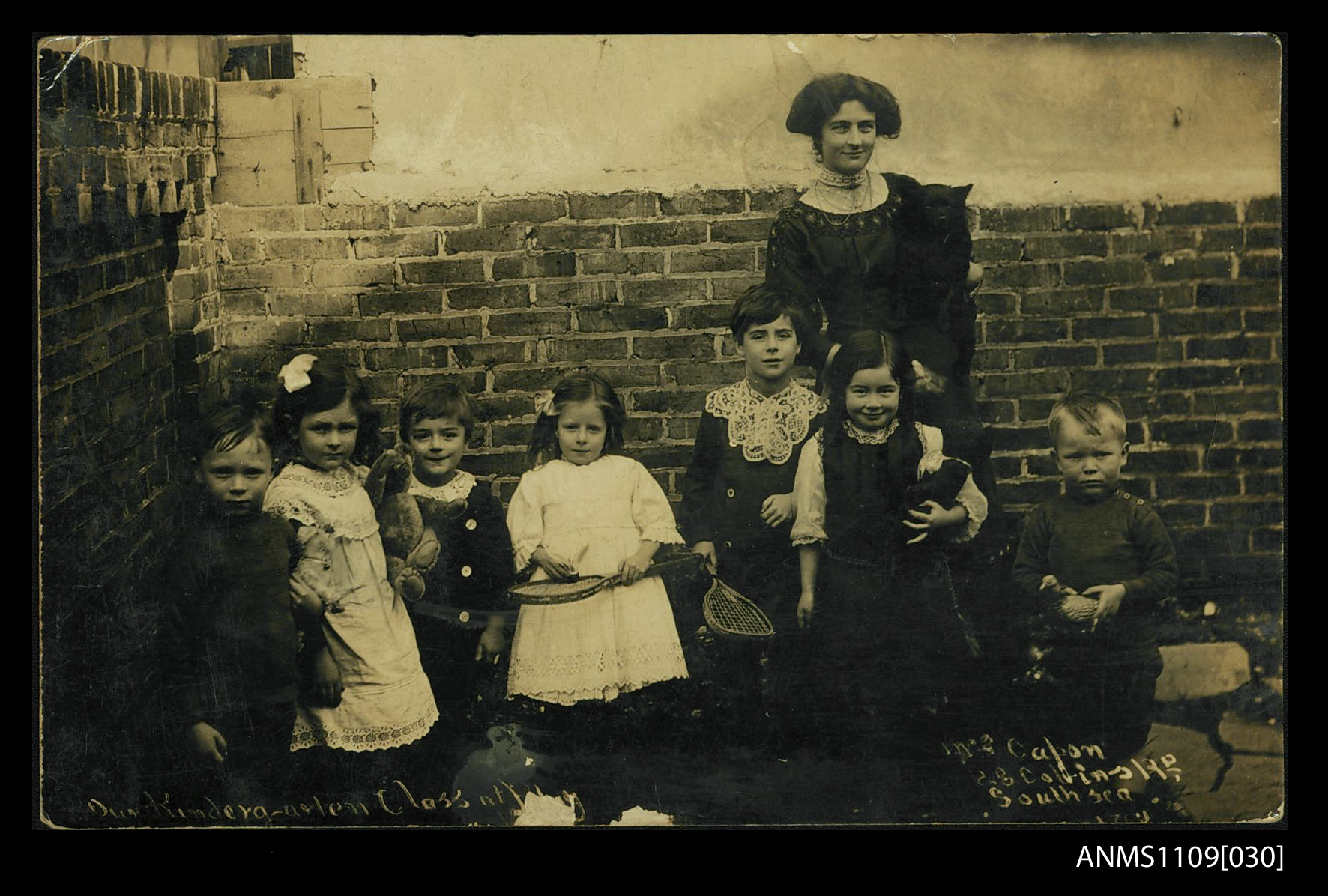 This photograph depicts a female teacher with her kindergarten class postcard of a young woman holding a black dog with seven small children standing around her. The children hold rackets and soft toys. The writing lower left reads: 'Our Kindergarten Class at play' and the writing lower right reads: 'Miss(?) Capon 28 Collins Rd., Southsea'. It is possible that this photograph depicts Miss Emily Capon's Private School which was located at 28 Collins Road in Southsea, United Kingdom in 1915. This photo is part of the Australian National Maritime Museum’s Samuel J. Hood Studio collection. Sam Hood (1872-1953) was a Sydney photographer with a passion for ships. His 60-year career spanned the romantic age of sail and two world wars. The photos in the collection were taken mainly in Sydney and Newcastle during the first half of the 20th century. If reproduced or distributed, this image should be clearly attributed to the collection of the Australian National Maritime Museum; and not be used for any commercial or for-profit purposes without the permission of the museum. For more information see our Flickr Commons Rights Statement. The ANMM undertakes research and accepts public comments that enhance the information we hold about images in our collection. This record has been updated accordingly. Photographer: Samuel J. Hood Studio Collection Object no. ANMS1109[030]